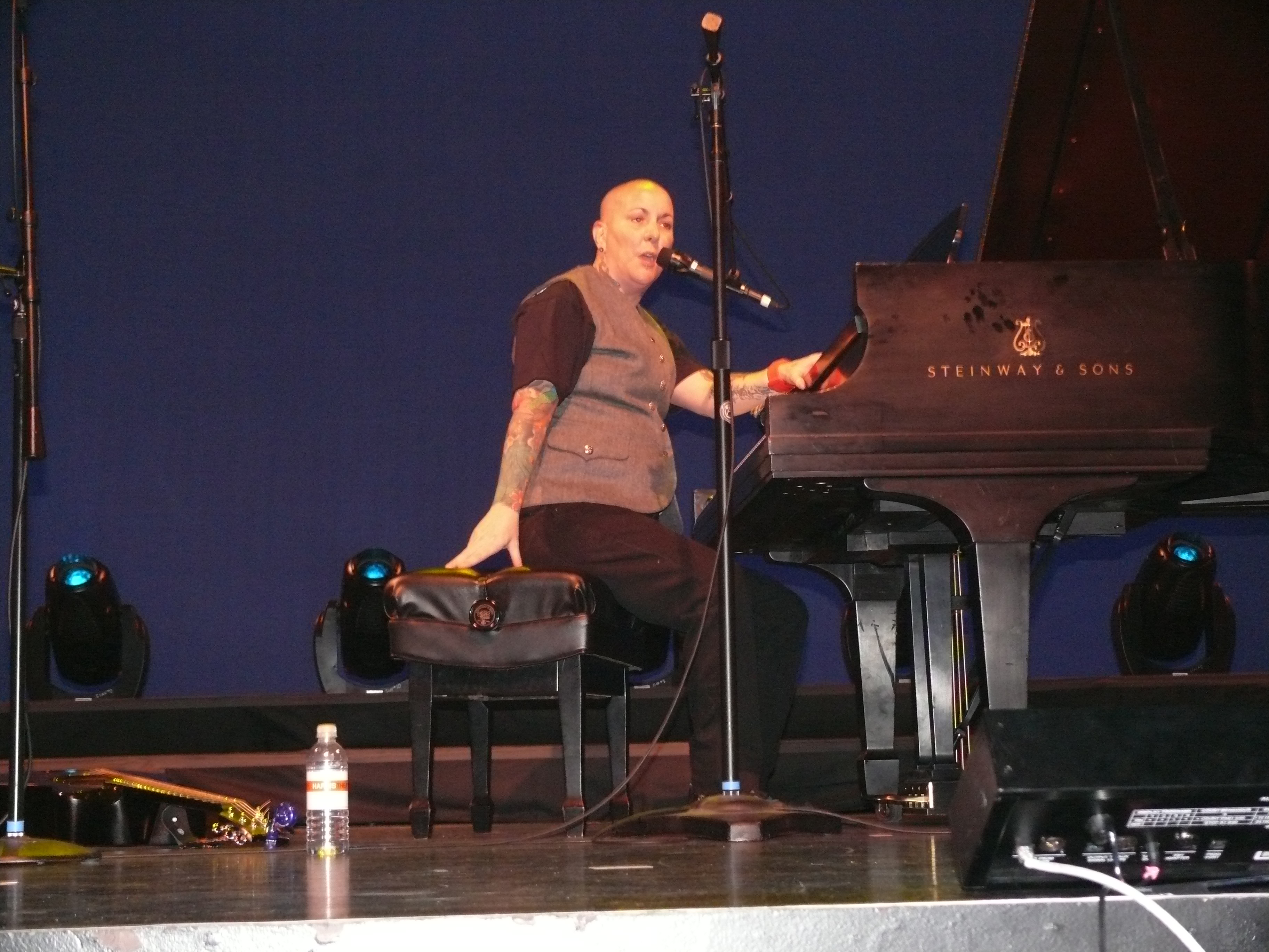 Beverly McClellan at IML2013